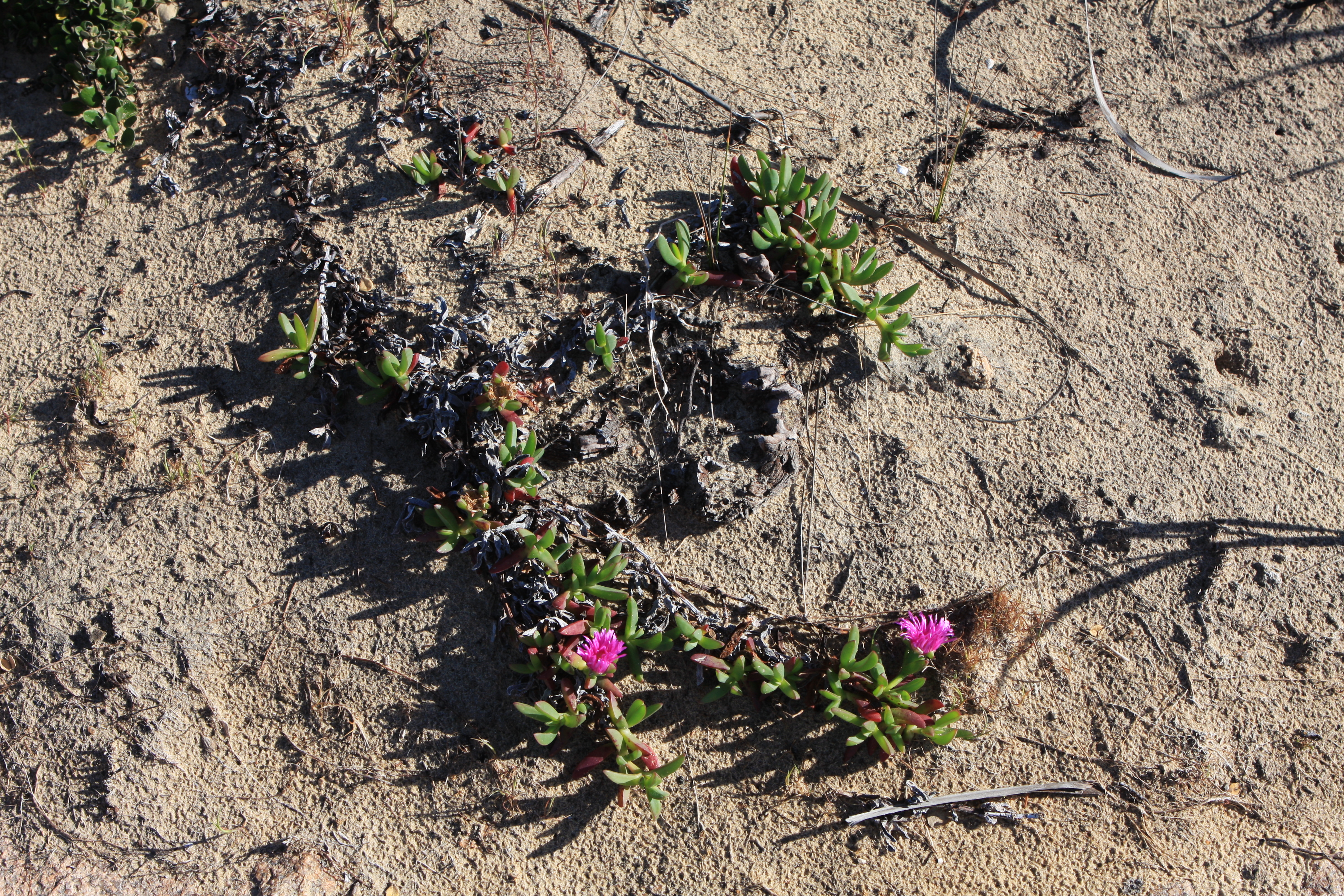 Carpobrotus rossii Common Ice Plant (also known as pigface) "Known botanically as the Aizoaceae (Latin for “evergreen” or “ever living”, the name reflects the ability of members to maintain green coverage of fleshy foliage whilst existing in the harshest and driest environments." source WARMING TO THE ICE PLANTS by Phil Watson Seen on a morning beach walk on the Freycinet Peninsula, Tasmania, Australia Australia oz2009 758